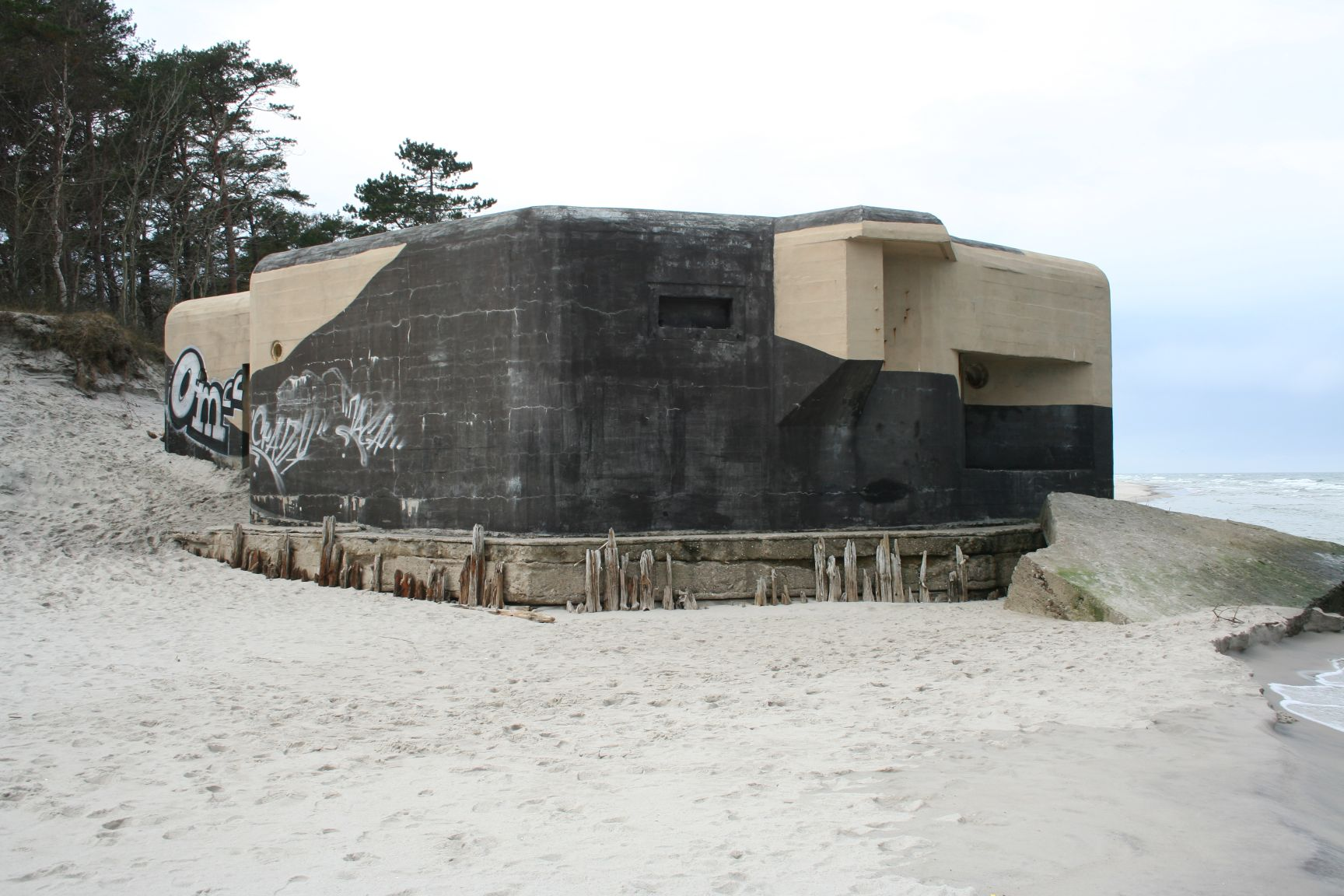 Schron Sep, Jastarnia [1]